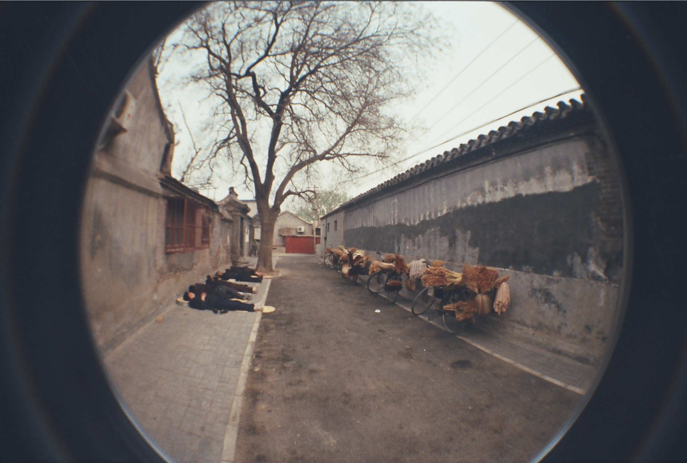 People resting from work and sleeping inside Xiaojingchang Hutong, Beijing.